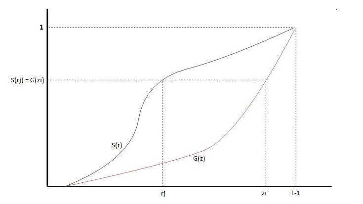 Matching an input image histogram with a desired histogram